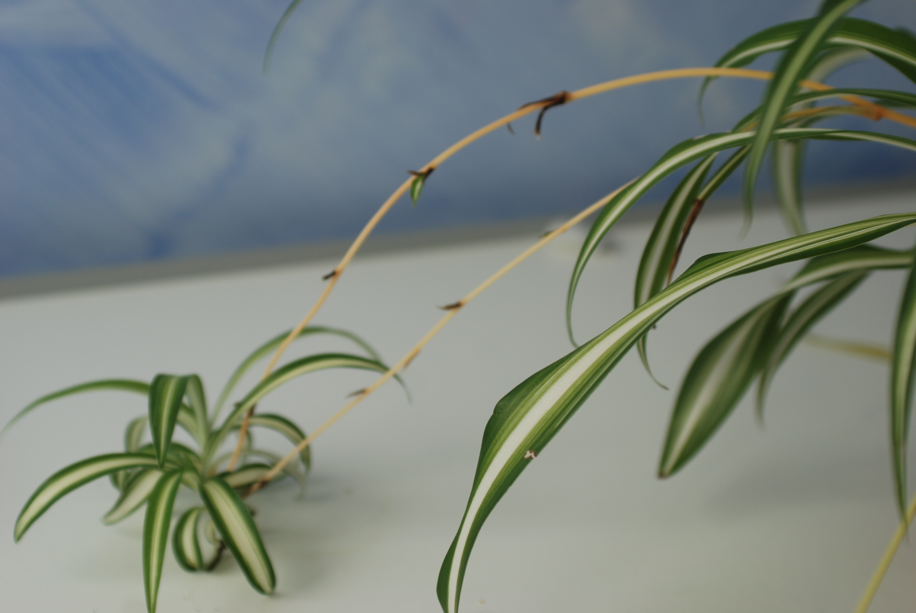 Spider plant with stolon